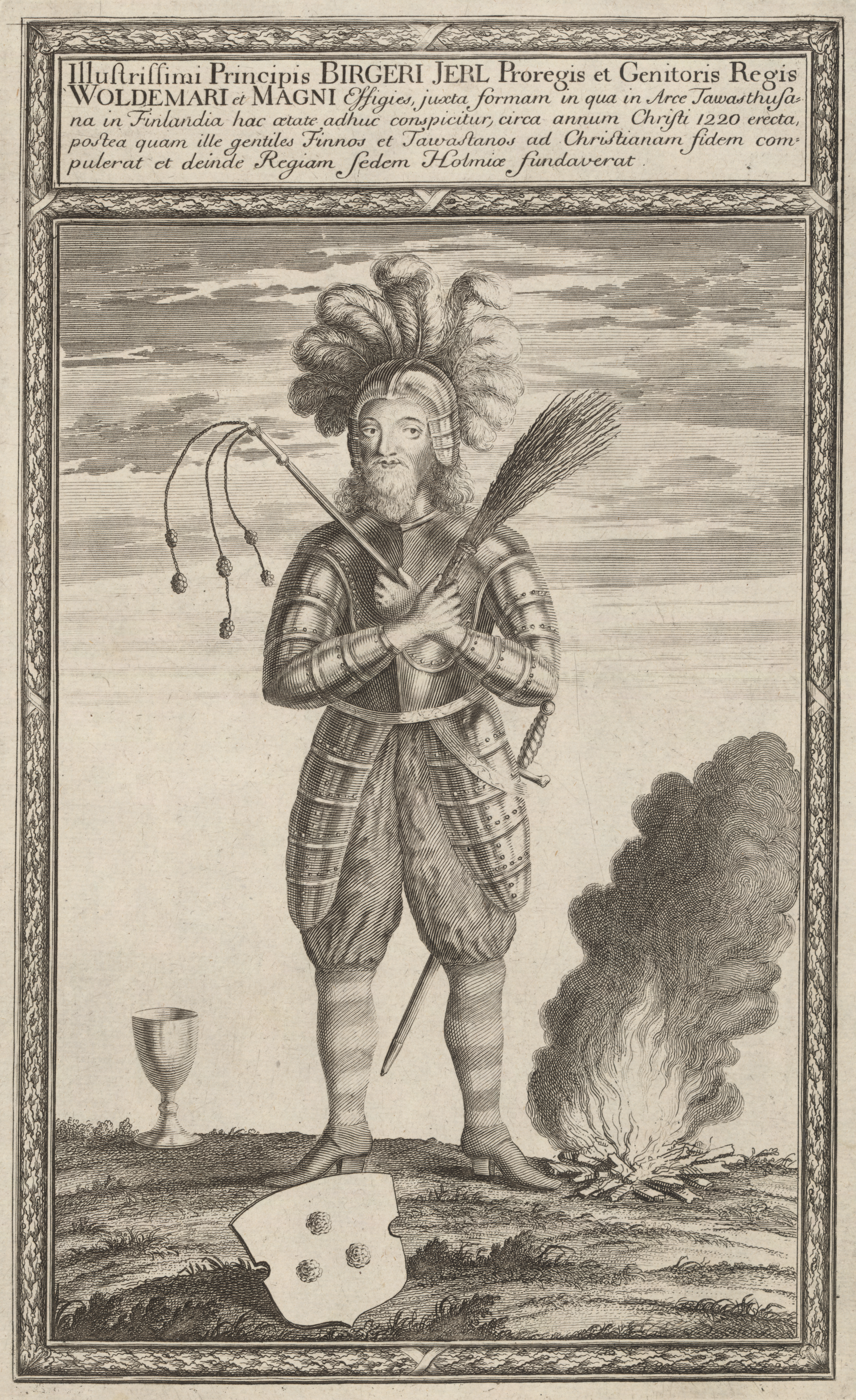 Engraving of 17th century, Yarl Birger imagine. Sweden Text: Illustrissimi Principis Birgeri Jerl Proregis et Genitoris Regis Woldemari et Magni Effigies, juxta formam in qua in Arce Tawasthusana in Finlandia hac actate adhuc conspicitur, circa annum Christi 1220 erecta, postea quam ille gentile Finnos et Tawastanos ad Christianam fidem compulerat et deinde Regiam Sedem Holmiae fundaverat.